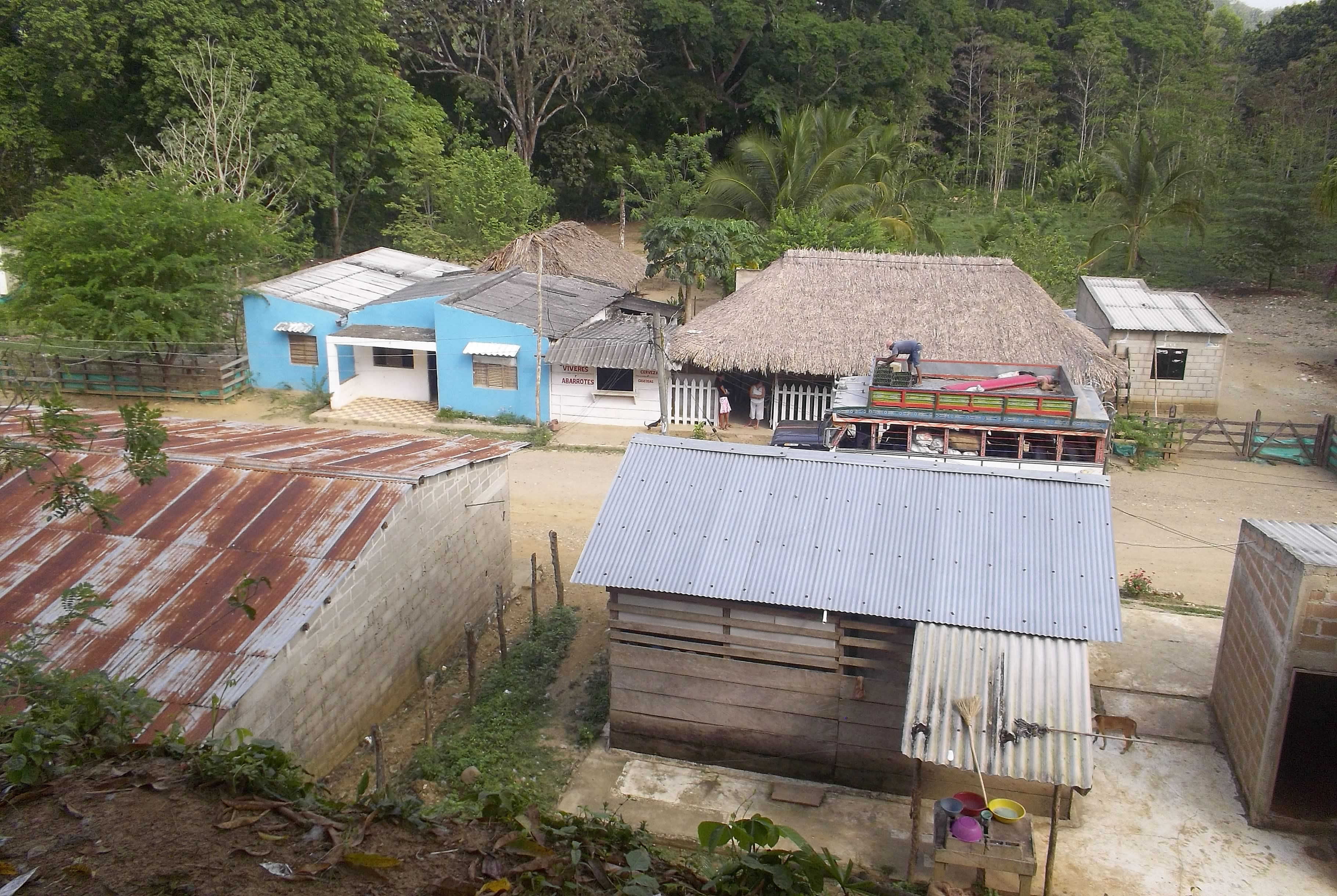 Macayepo, corregimiento of Carmen de Bolívar, Colombia